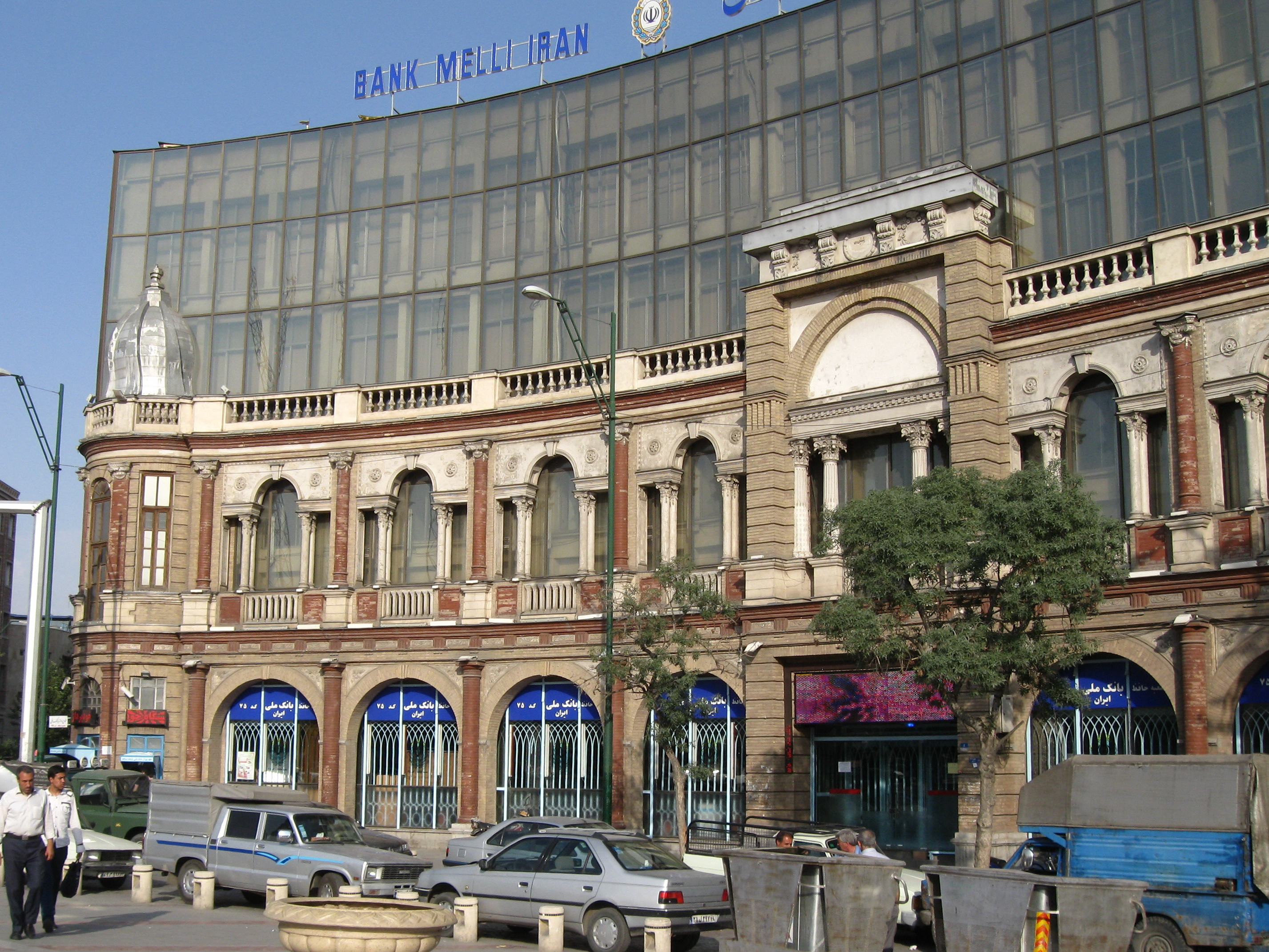 Iran (Tehran)